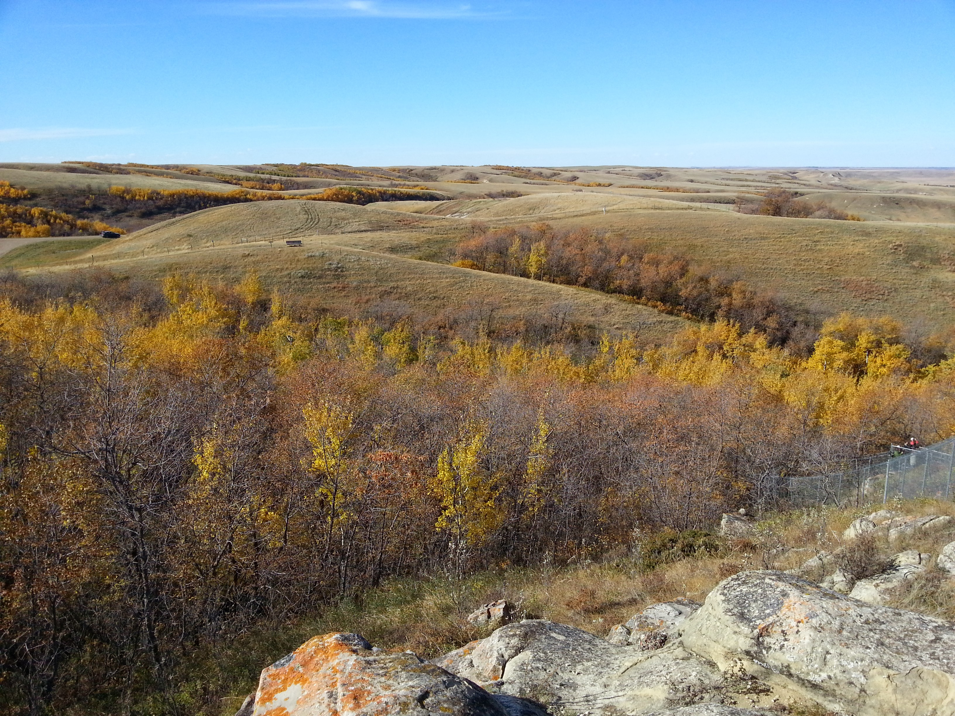 St. Victor's Petroglyphs Provincial Park outside of Willow Bunch, SK.